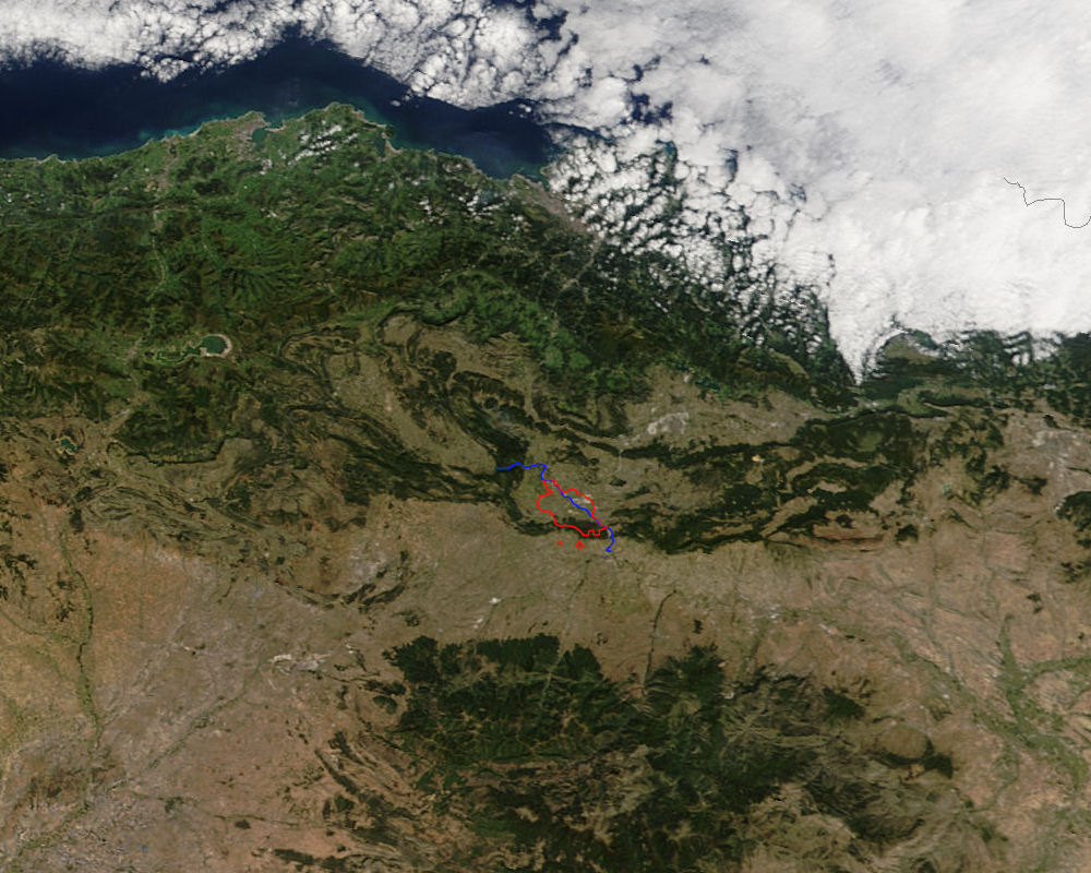 View of Miranda de Ebro (northern Spain) (red) and the river Ebro (blue) across the town.